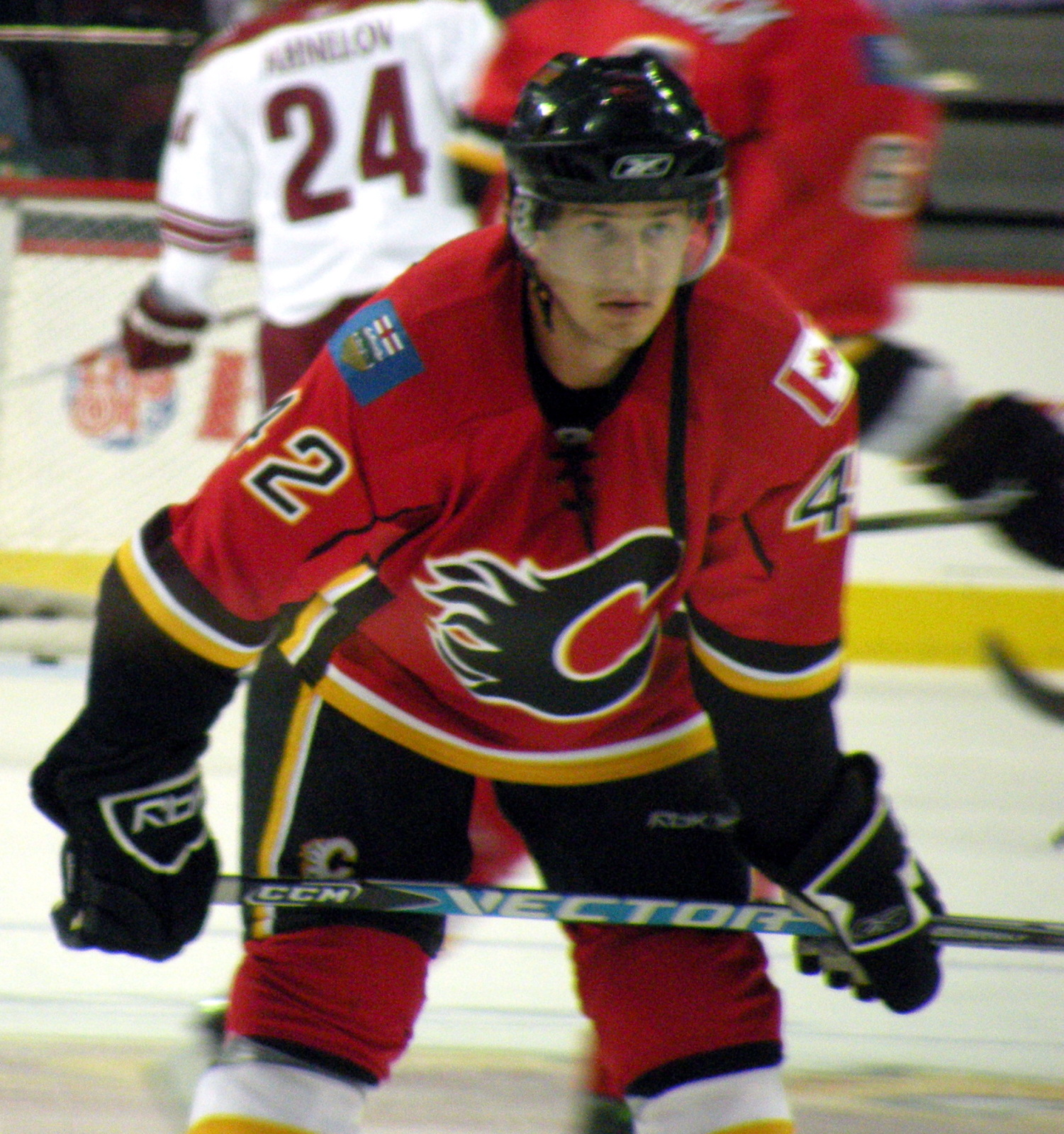 Calgary Flames prospect Brett Sutter during warm-up prior to a pre-season game against the Phoenix Coyotes.